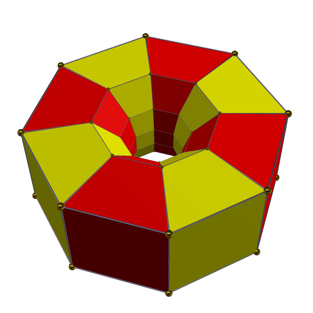 duoprism net